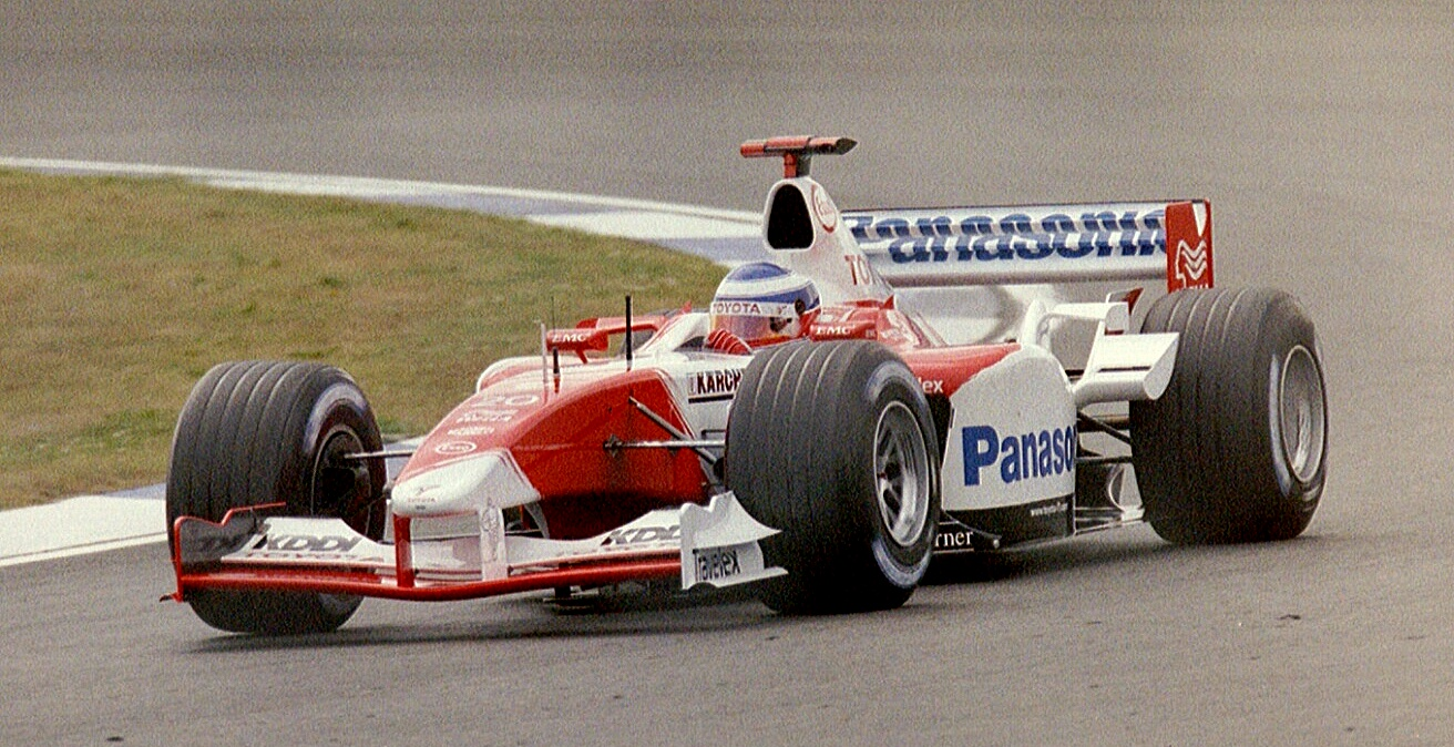 Olivier Panis, driving his Panasonic Toyota at the 2003 British Grand Prix.